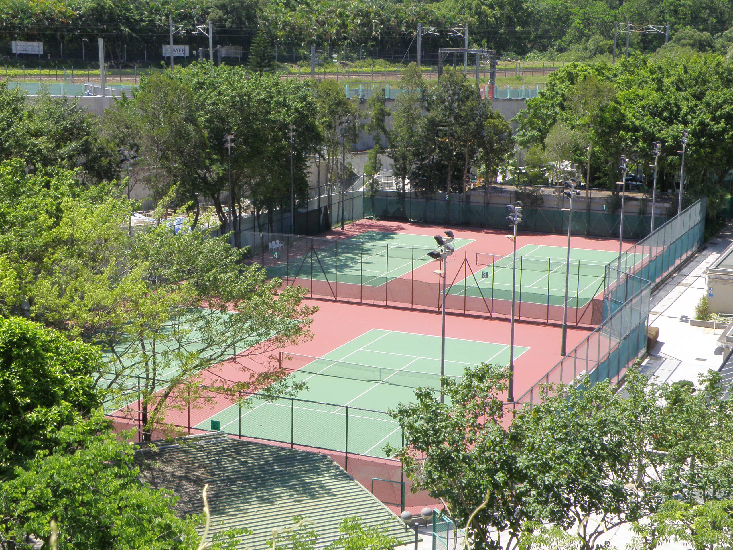 Hin Tin Playground in Hin Keng, Hong Kong.